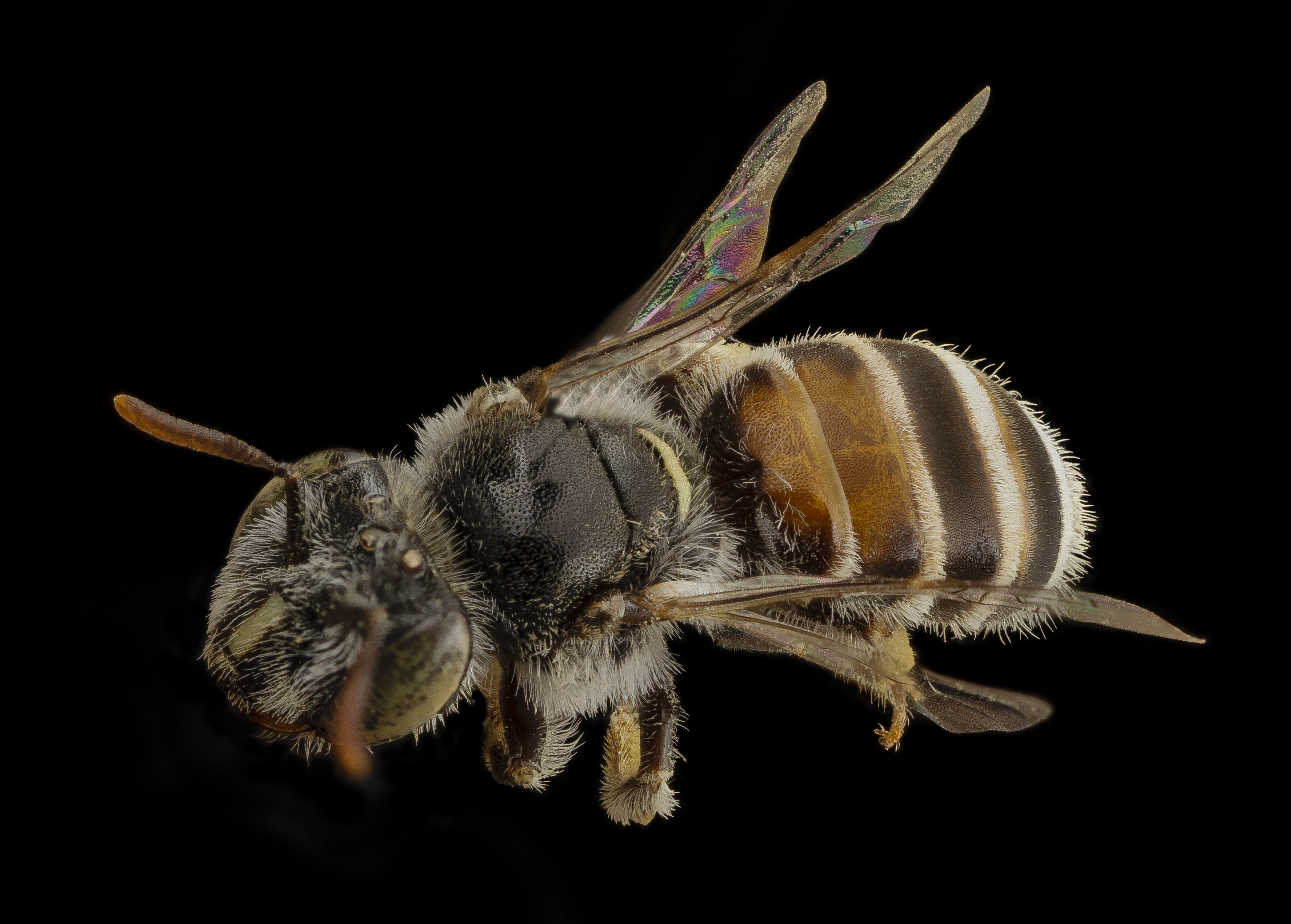 An all African. This small species was captured in South Africa by Laurence Packer's lab. Often this species has multiple males and females using the same nest, though apparently not dividing up the labor, but simply finding some advantage of living together rather than nesting in the ground separately. 13:53, 17 November 2014 (UTC)13:53, 17 November 2014 (UTC) 0 13:53, 17 November 2014 (UTC)13:53, 17 November 2014 (UTC) All photographs are public domain, feel free to download and use as you wish. Photography Information: Canon Mark II 5D, Zerene Stacker, Stackshot Sled, 65mm Canon MP-E 1-5X macro lens, Twin Macro Flash in Styrofoam Cooler, F5.0, ISO 100, Shutter Speed 200 The murmuring of bees has ceased; But murmuring of some Posterior, prophetic, Has simultaneous come,-- The lower metres of the year, When nature's laugh is done,-- The Revelations of the book Whose Genesis is June. -Emily Dickinson Want some Useful Links to the Techniques We Use? Well now here you go Citizen: Basic USGSBIML set up: USGSBIML Photoshopping Technique: Note that we now have added using the burn tool at 50% opacity set to shadows to clean up the halos that bleed into the black background from "hot" color sections of the picture. PDF of Basic USGSBIML Photography Set Up: ftp://ftpext.usgs.gov/pub/er/md/laurel/Droege/How%20to%20Take%20MacroPhotographs%20of%20Insects%20BIML%20Lab2.pdf Google Hangout Demonstration of Techniques: or Excellent Technical Form on Stacking: Contact information: Sam Droege 301 497 5840